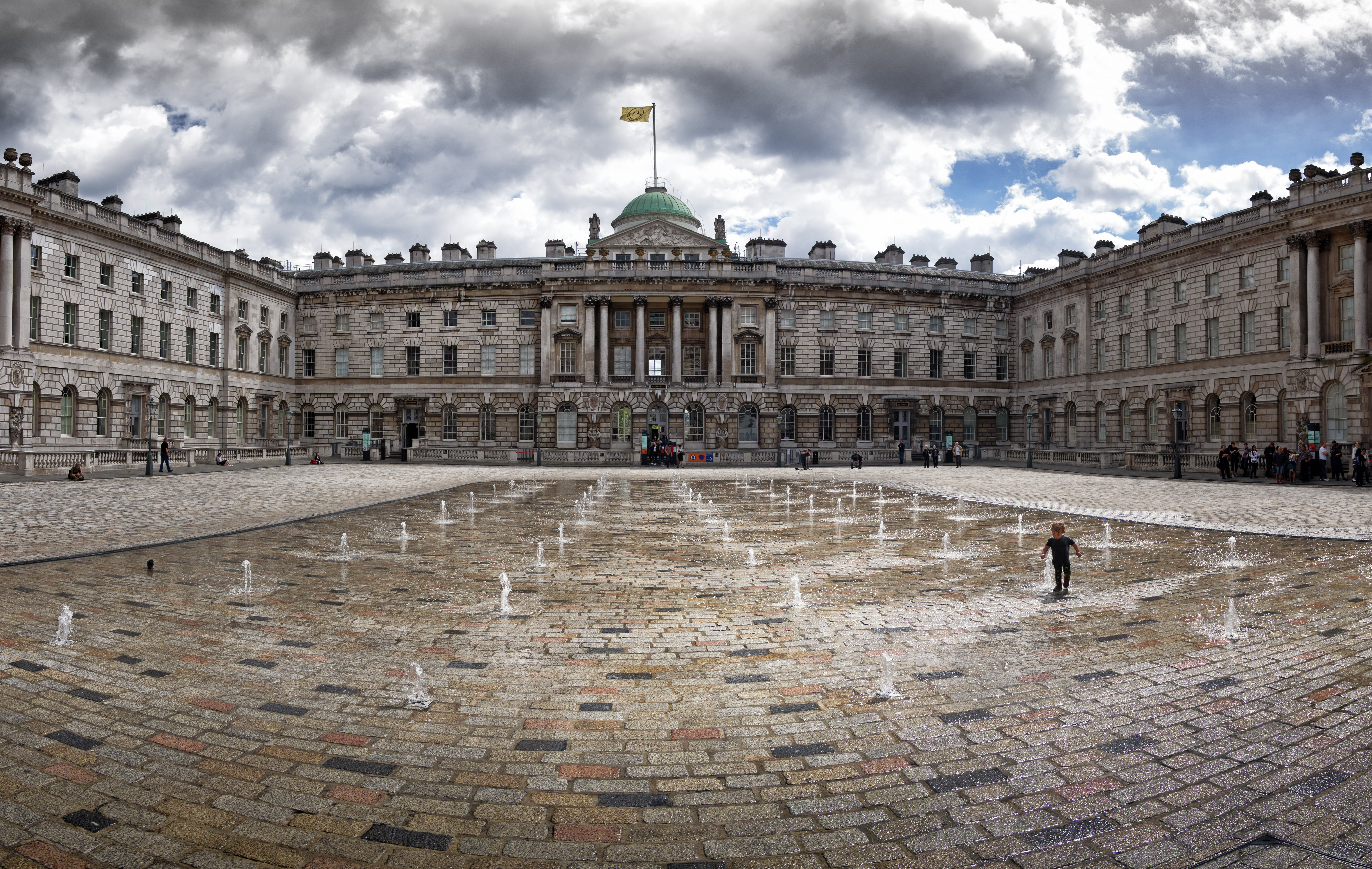 The courtyard of Somerset House, London.